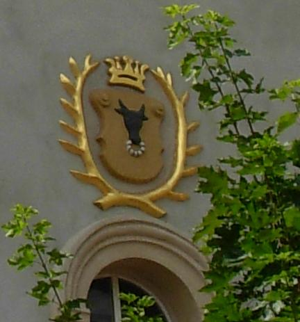 Wieniawa coat of arms in Leżajsk monastery. Detail of Image:Leżajsk Monastery 23.JPG full resolution, by User:Piotrus and tagged with the same “self2.GFDL.cc-by-sa-2.5,2.0,1.0” license.